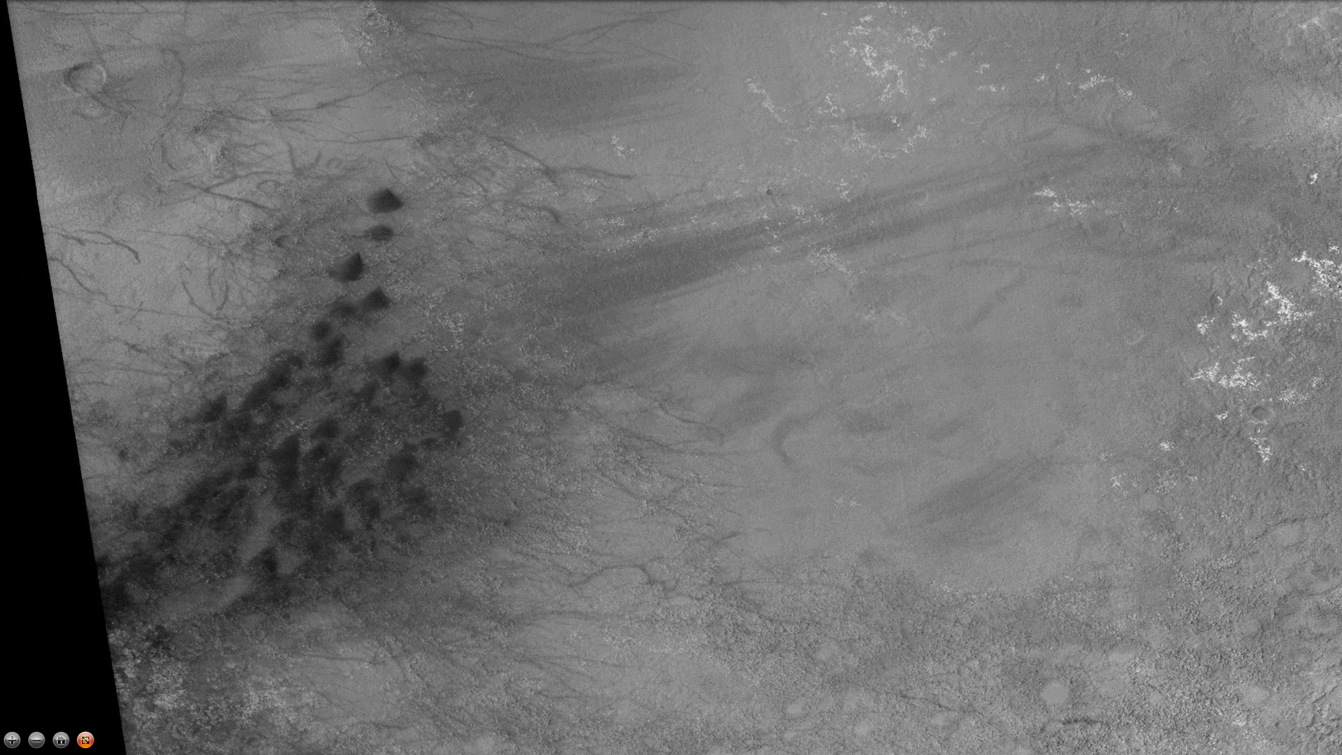 Eastern portion of Helmholtz Crater showing dunes, as seen by ctx